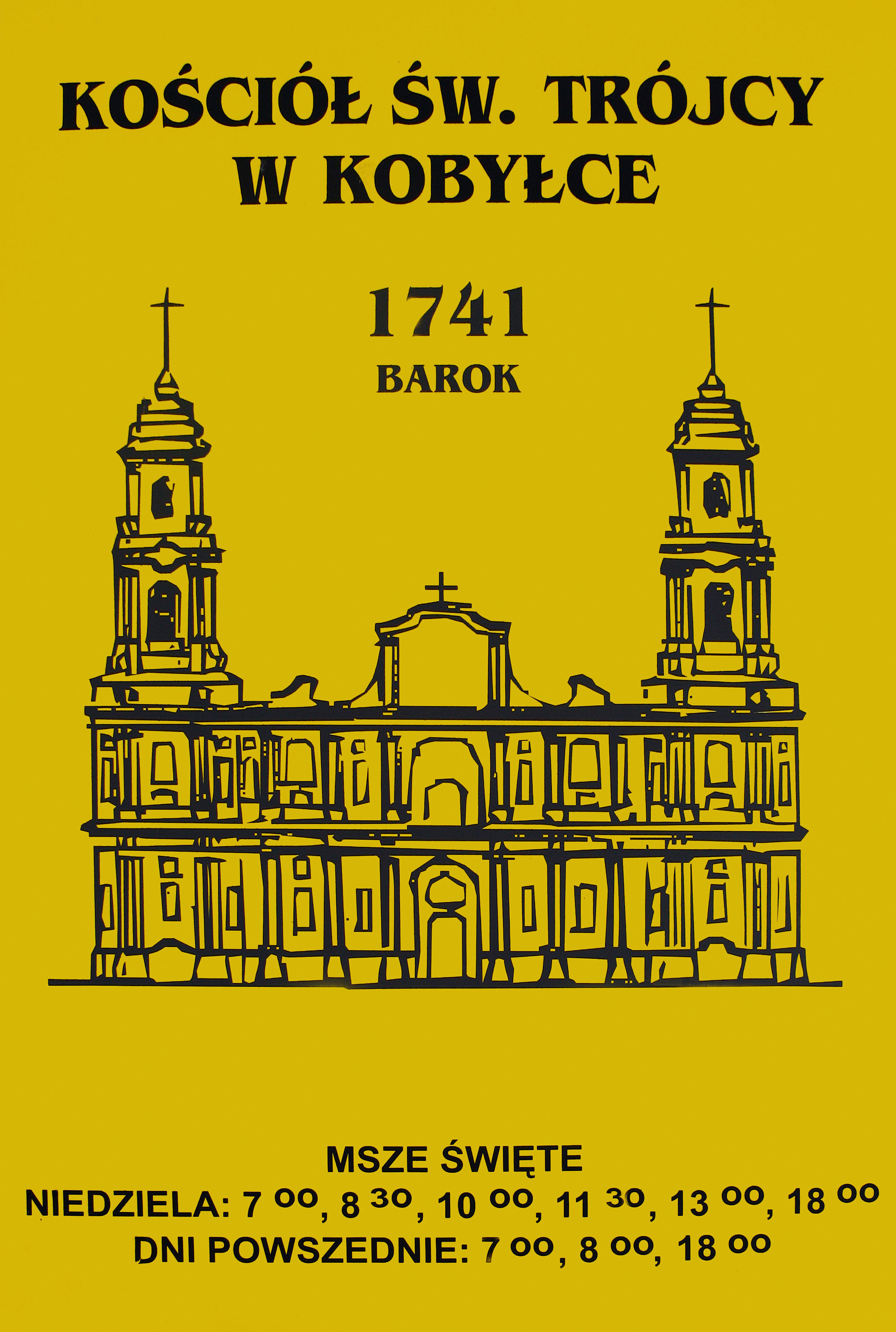 Trinity Church in Kobyłka, Poland